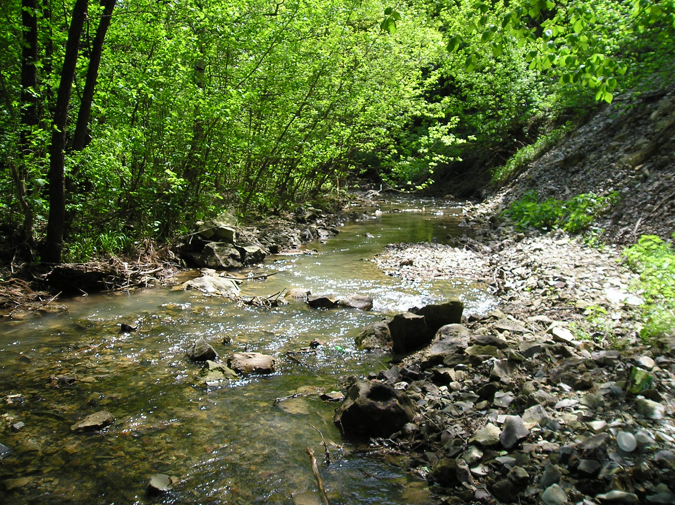 Scherbakovka river, which flows along the bottom Shcherbakovskaya beams. Nature Park Shcherbakovskaya, Kamyshin district of the Volgograd Region.